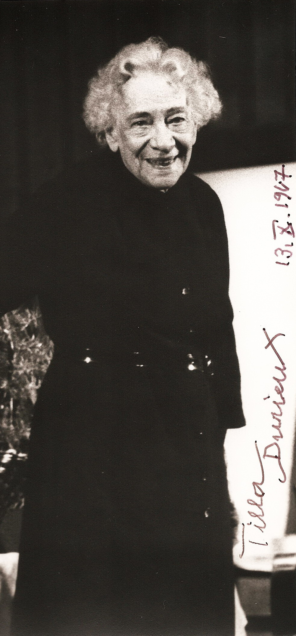 The actress Tilla Durieux after the drama "Lobster" in 1967